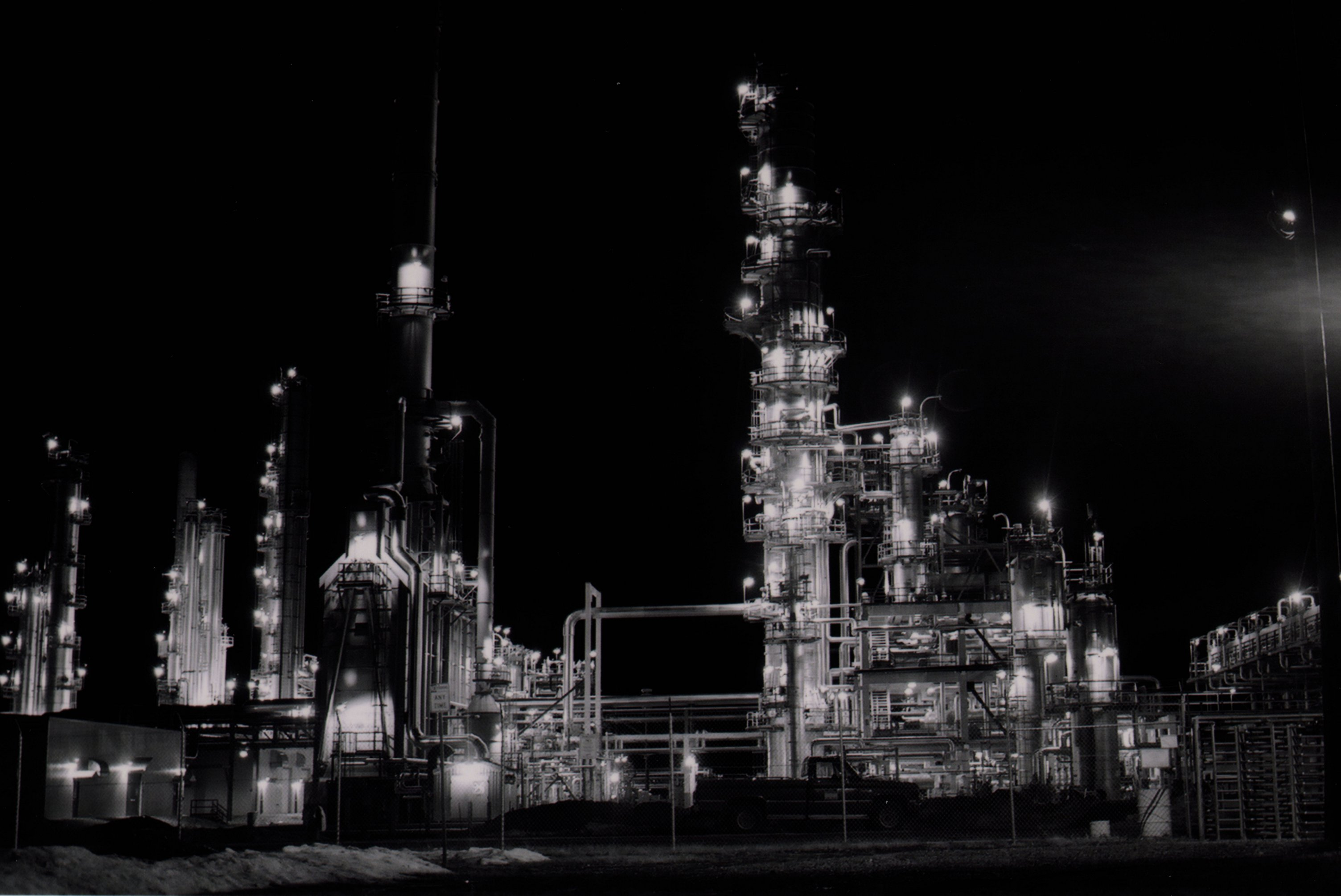 Oil refinery in North Pole Alaska. Note: This was shot with black and white film.